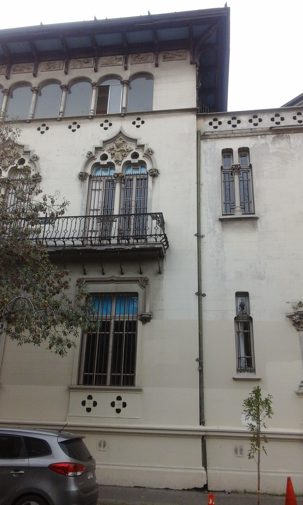 La visualización del Palacio Letelier desde la calle Cienfuegos.